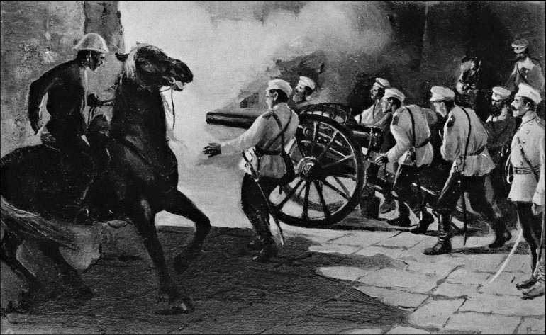 Russian cannons firing at Beijing gates during the night. August, 14, 1900.